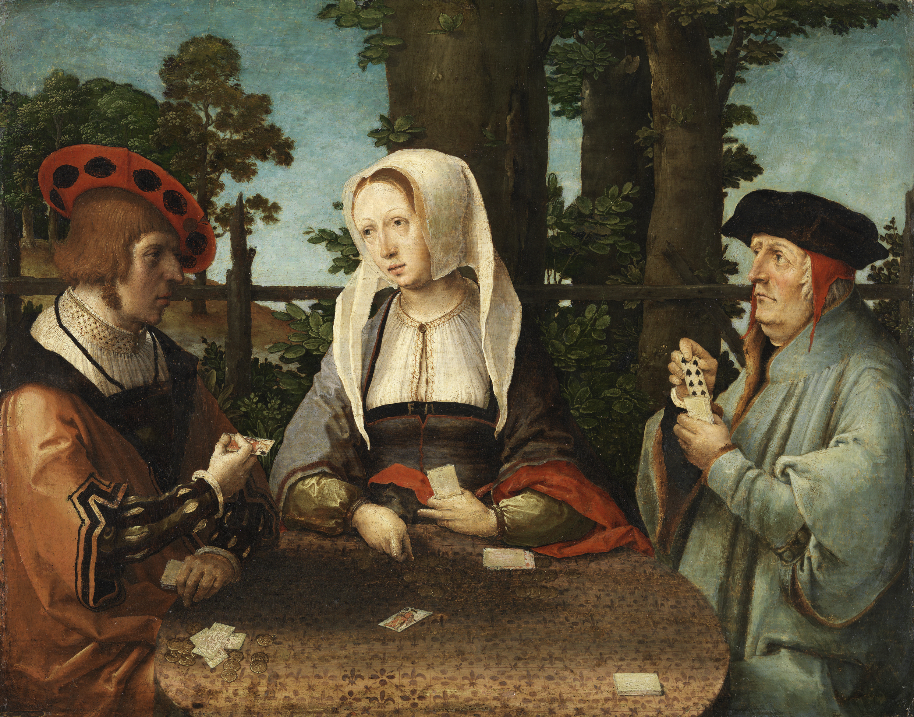 Oil on panel - 1525, Lucan van Leyden, Nederlandish Painter. Museo Thyssen-Bornemisza, Madrid.